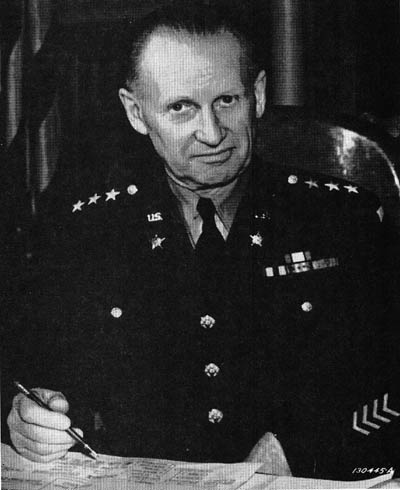 United States Lieutenant General Lesley J. McNair, the highest-ranking American officer to be killed (by friendly fire) during World War II. Originally from The Command and General Staff College Web Site. Credit given as requested here.